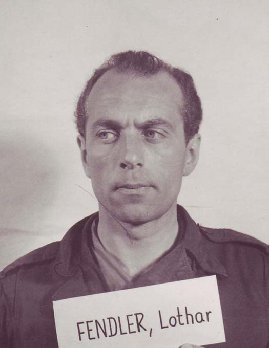 Lothar Fendler (1913-?), German SS-Officer of the Einsatzgruppen killing squads. This photograph of Fendler was taken by US Army photographers on behalf of the Office of Chief of Counsel for War Crimes (OCCWC) during Nuremberg Trial IX (Einsatzgruppen Trial / Einsatzgruppen-Prozess).